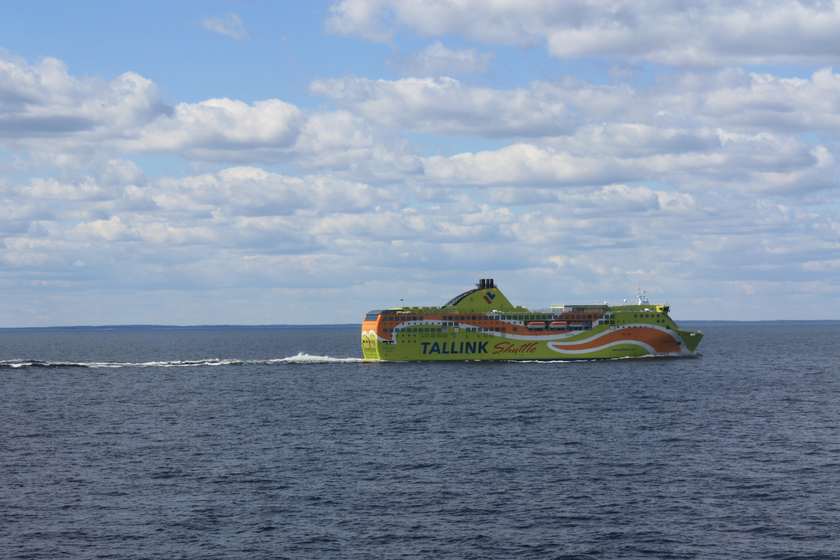 Tallink Superstar arriving in Helsinki Super Star IMO Number: 9365398 MMSI Number: 276747000 Callsign: ESIY Length: 177 m Beam: 27 m